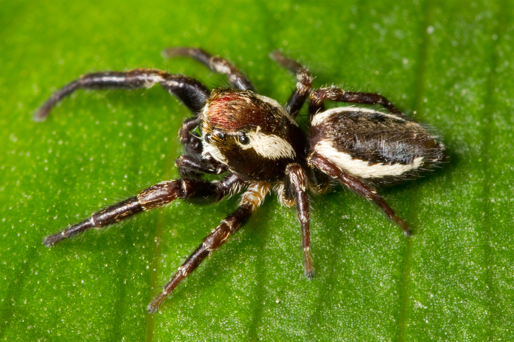 Male Phanias albeolus jumping spider found in Alameda County, California. Body length: approx. 5 mm.